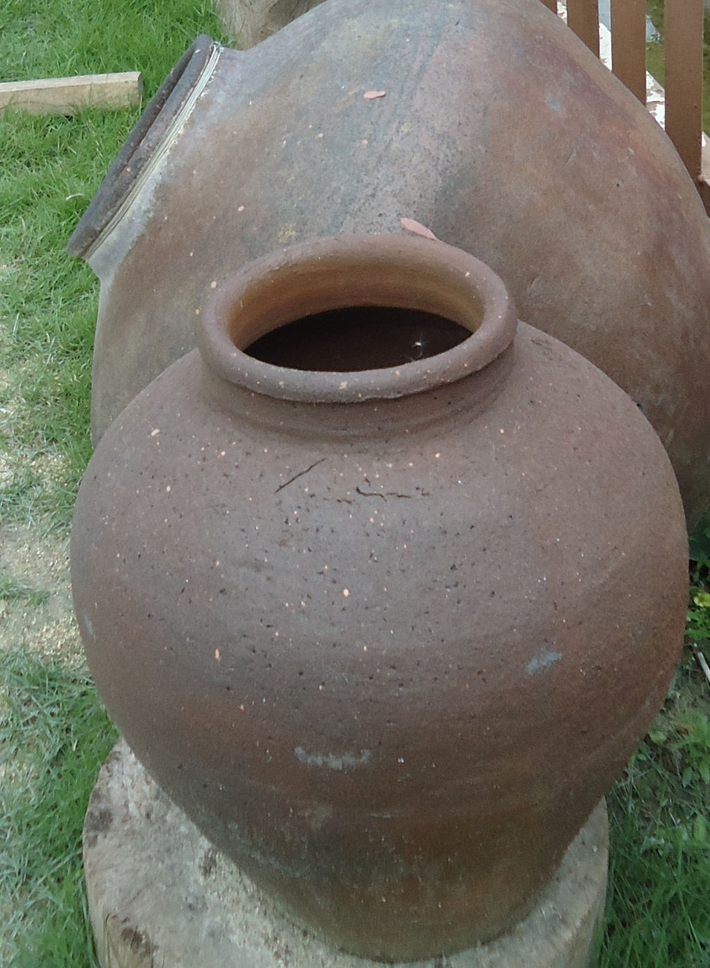 Burnay (tapayan) jars used as lawn ornaments